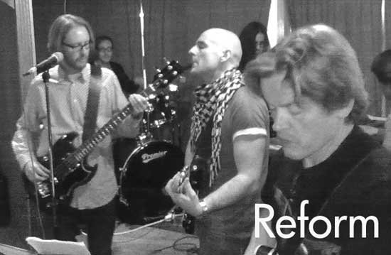 Reform